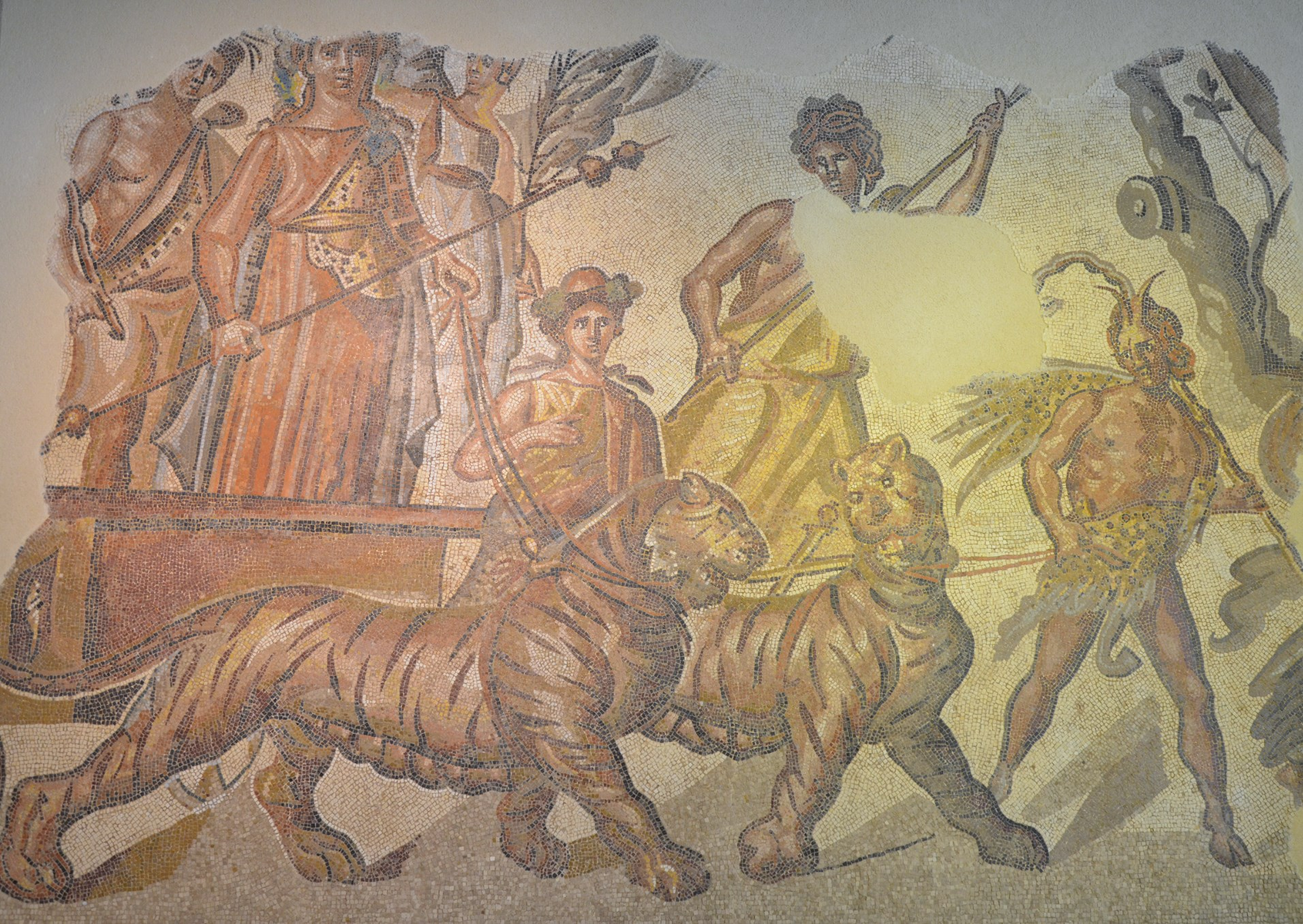 National Archaeological Museum of Spain, Madrid